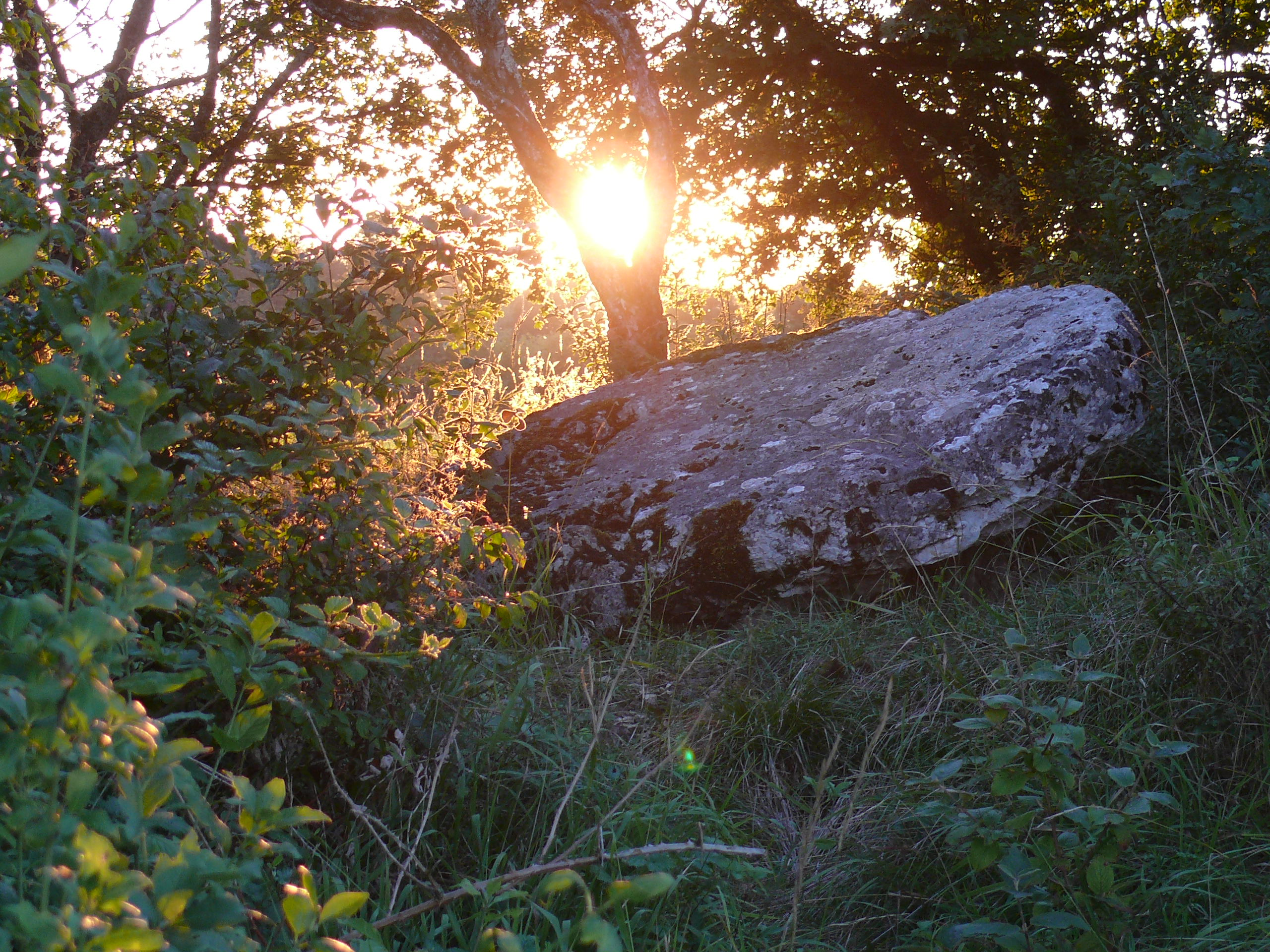 Dolmen "la pierre qui vire" (the spinning stone) in Colombe-lès-Vesoul (Haute-Saône, France)